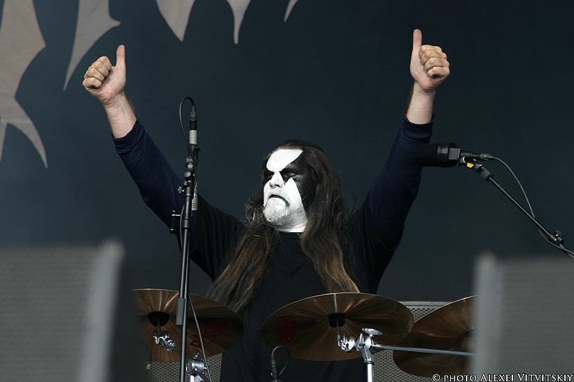 Horgh during the Immortal concert at the 2007 Tuska Open Air Metal Festival.